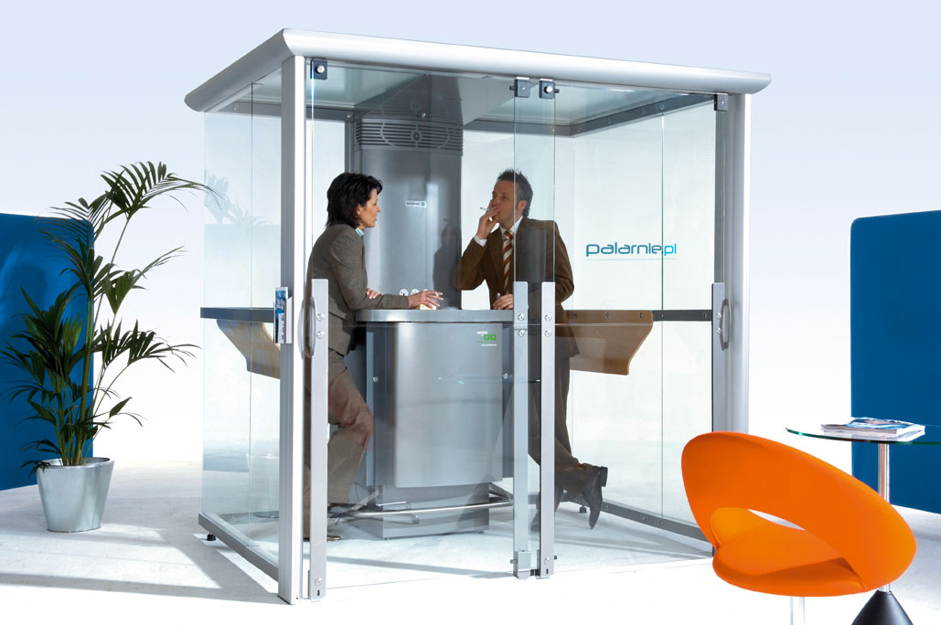 An example of a smoking cabin which removes unwanted tobacco smoke.